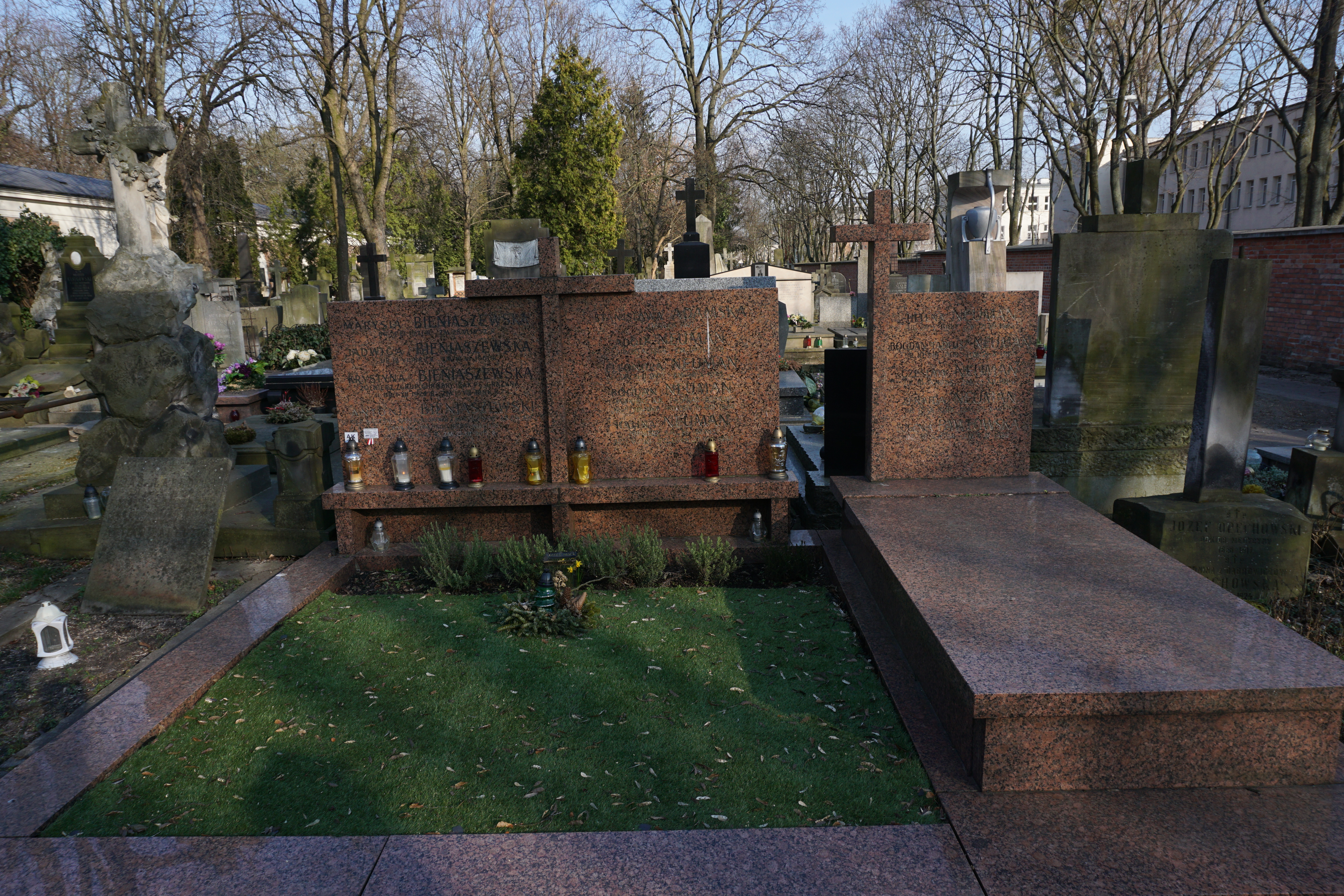 The grave of Antoni Bieniaszewski at the Powązki Cemetery (section 174, row 2, grave 34)